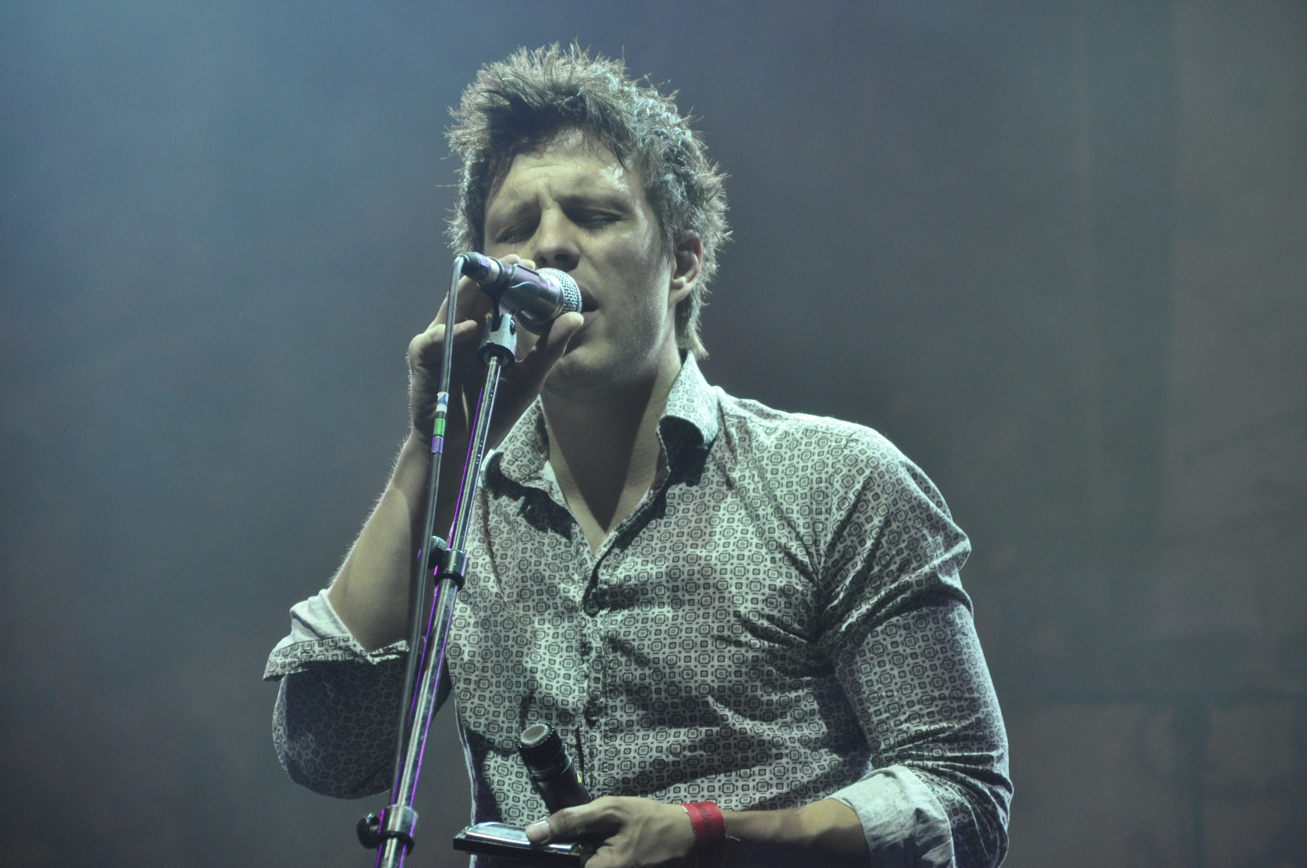 Charles Pasi (France), appearance at the 38th music festival "Bardentreffen" 2013 in Nuremberg, Germany, Hauptmarkt stage